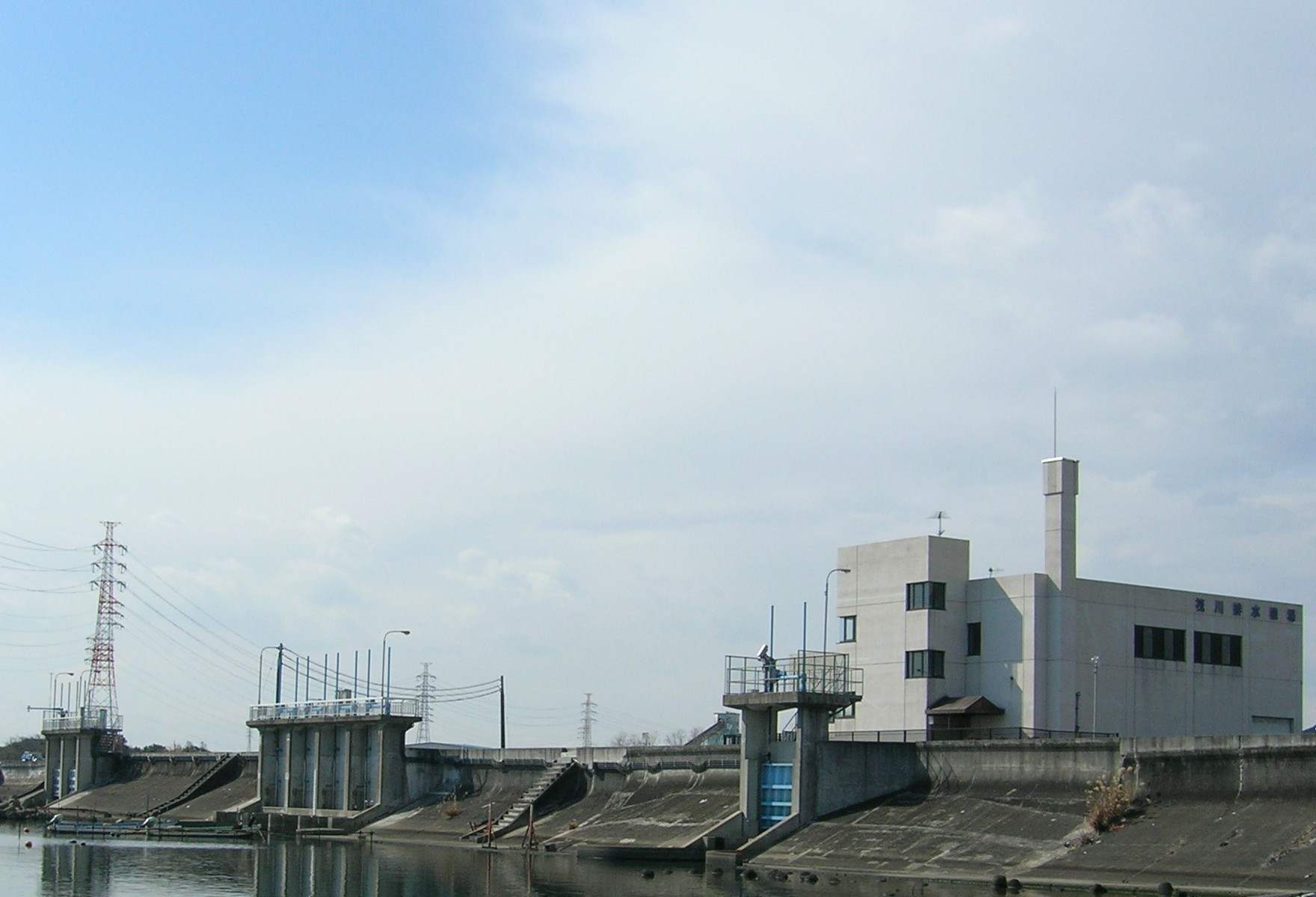 Ikada River floodgate. Loc: Tobishima village, Aichi Prefecture, Japan. 筏川河口付近。筏川樋門。 撮影場所 愛知県海部郡飛島村